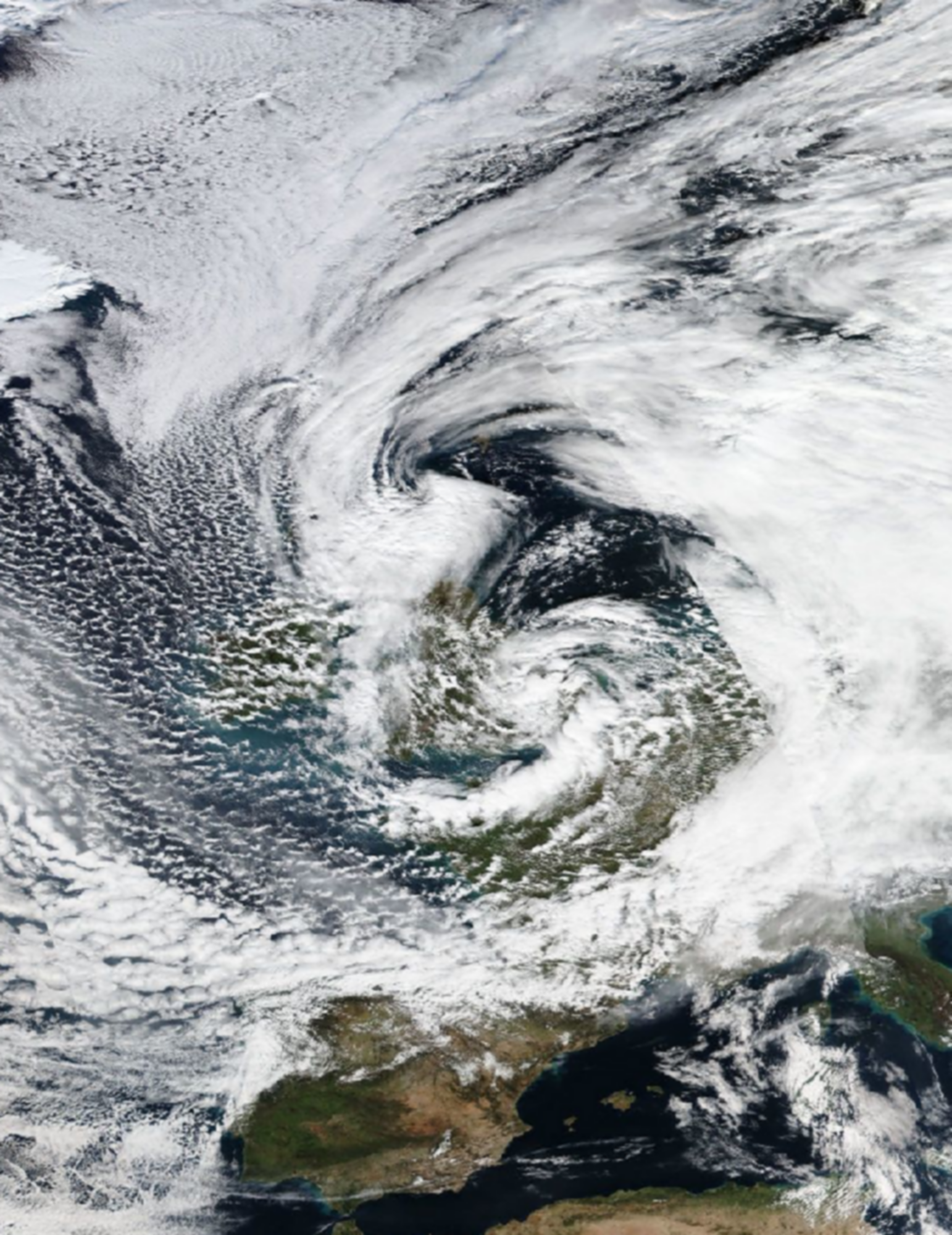 Storm Jake of the 2015–16 UK and Ireland windstorm season on 2 March 2016.